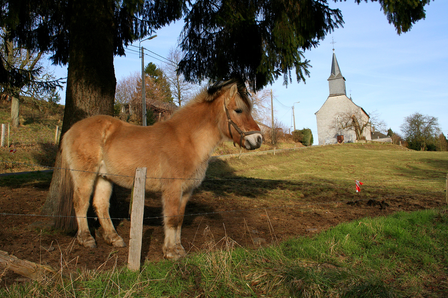 Mohiville (Belgium), the Saint-Peter’s church (1768).